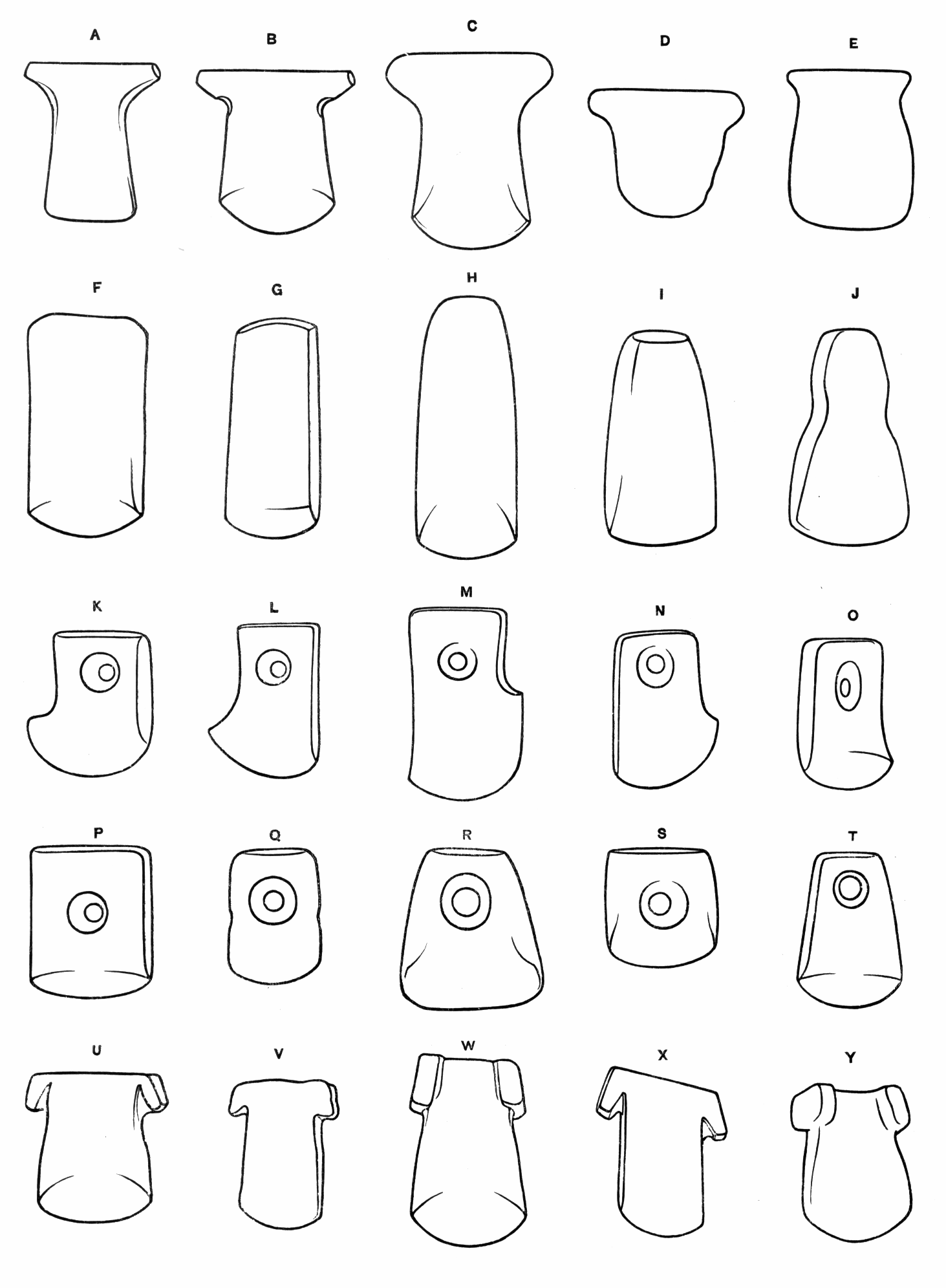 Five types of stone tools found in Ecuador